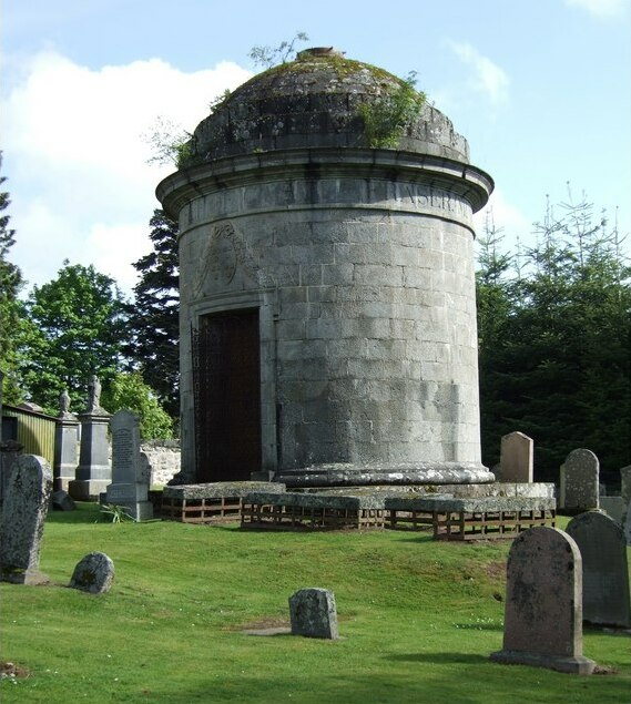 Fraser Mausoleum, Cluny kirkyard. The inscription beneath the dome reads 'ELYZA FRASER OF CASTLE FRASER MDCCCVIII'. The escutcheon above the door bears the Fraser Coat of Arms with the motto 'Je suis prest' (I am ready). There are four mortsafes close to the door to the mausoleum. See link at